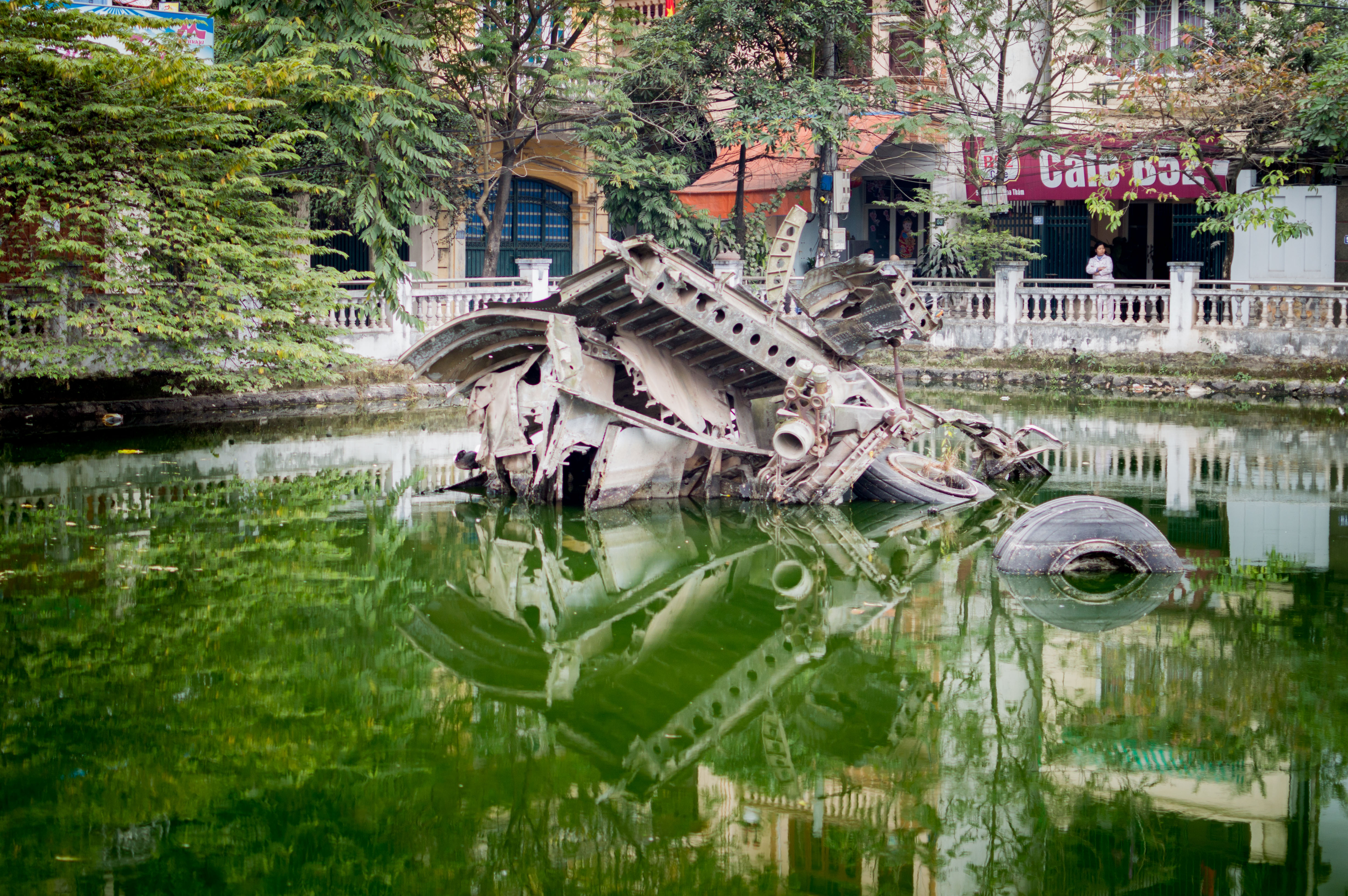 This aircraft was shot down by a surface to air missile fired by the 72nd Battalion, 285th Air Defence Missile Regiment on 27 December 1972. The wreckage is part of a US Air Force B52, which crashed into this lake in downtown Hanoi. It is now surrounded by residential buildings.